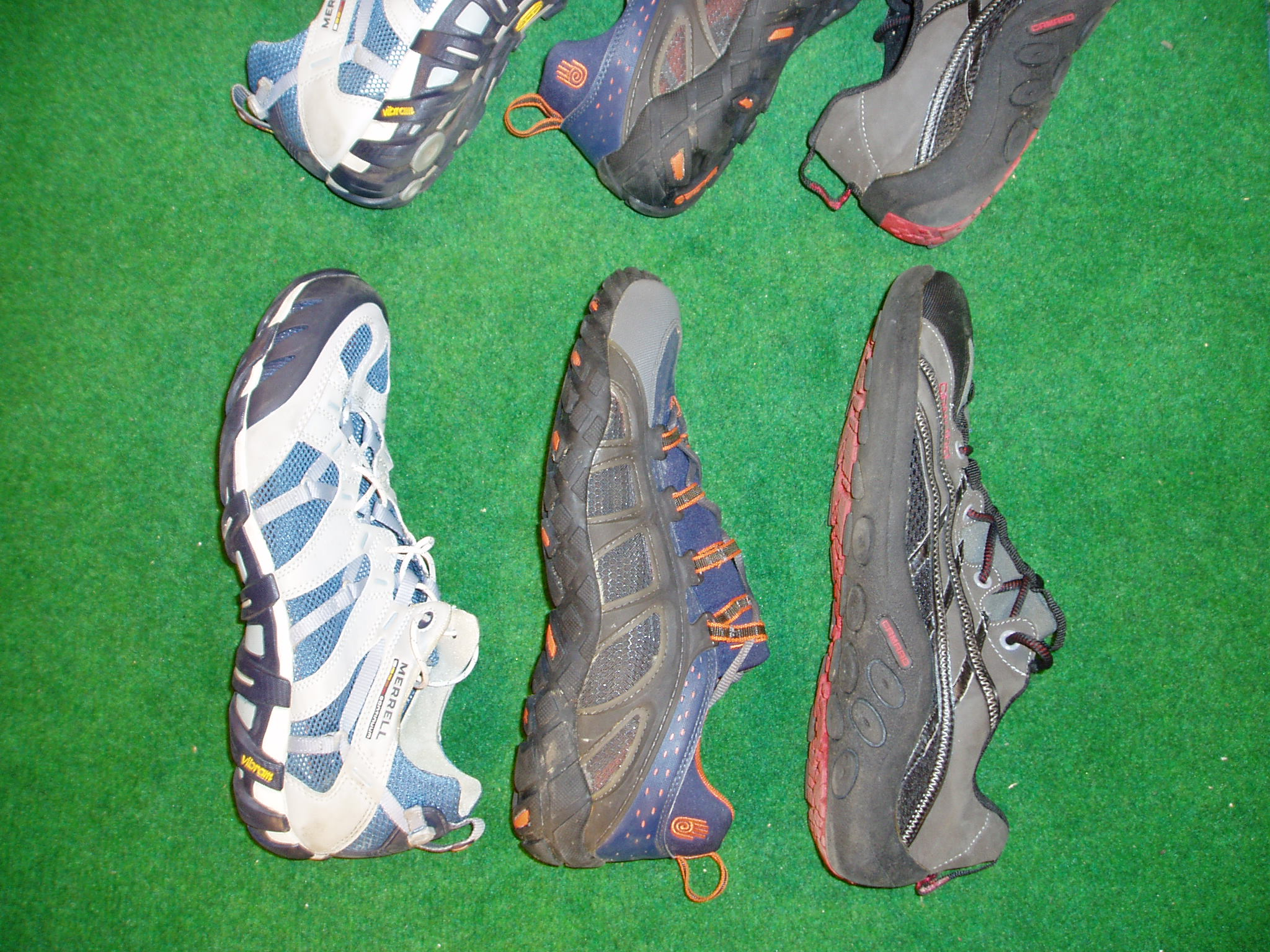 Watershoe